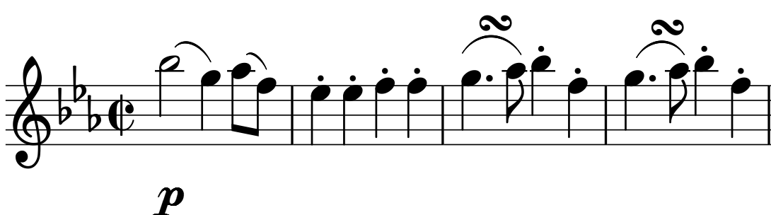 Joseph Haydn, Symphony No. 84, first movement, first violin, bar 1-4